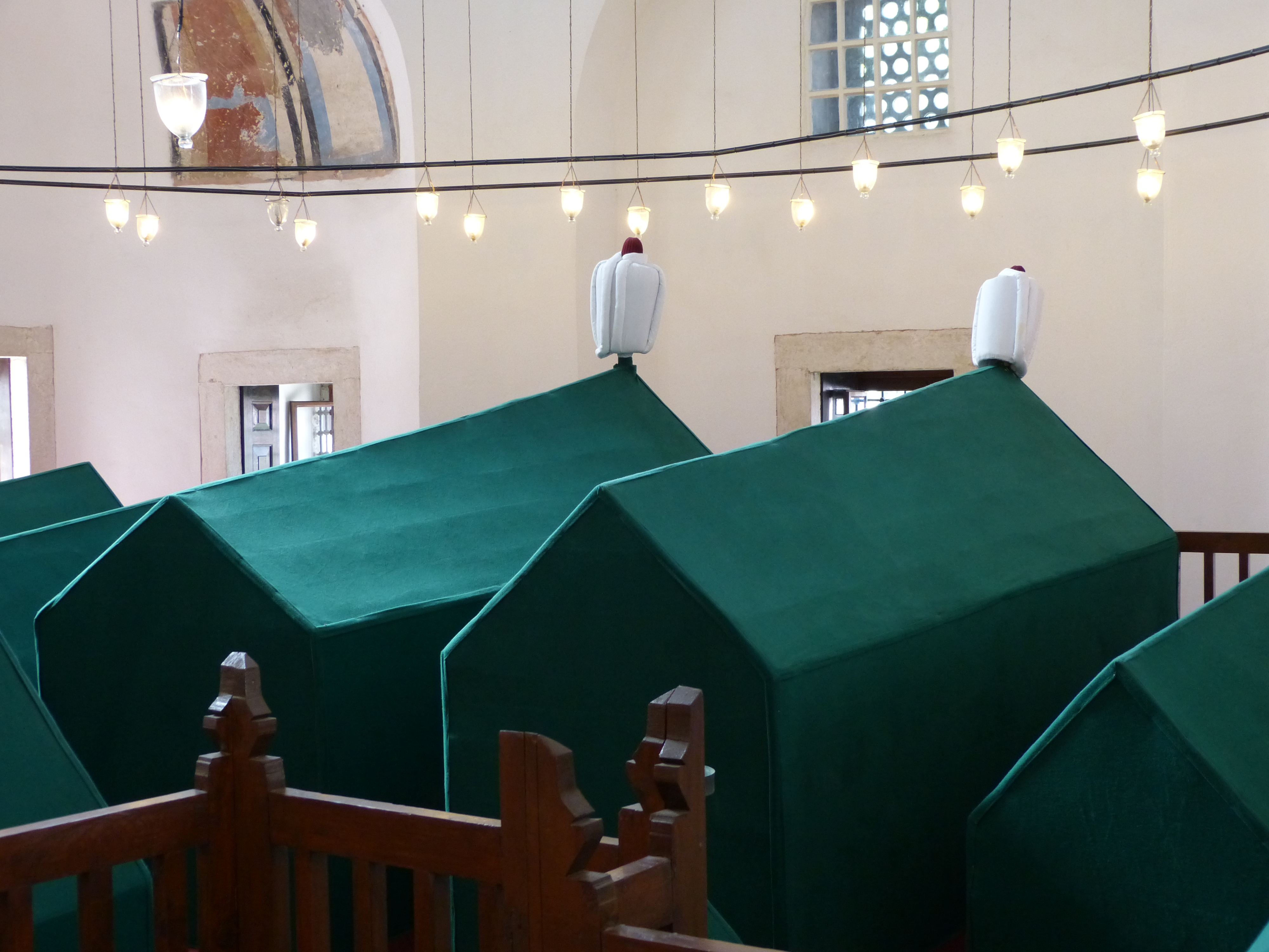 Türbe (Tomb) of Sultan Mustafa I and Ibrahim I